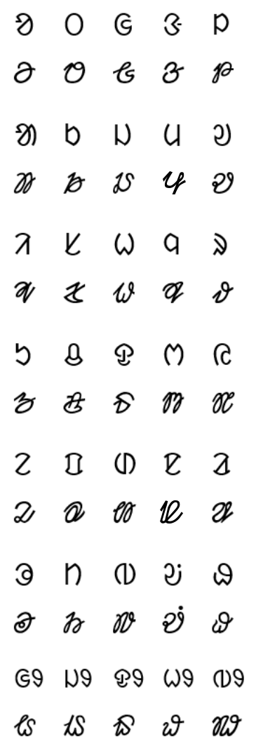 Chart with both printed and handwritten Ol Chiki letters